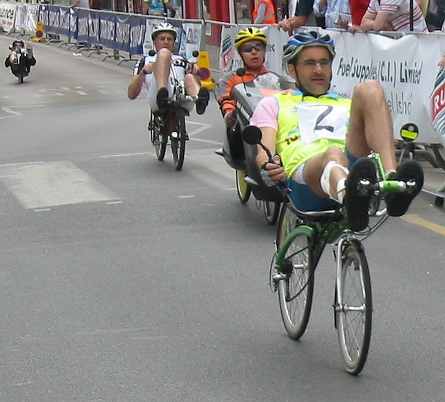 Jersey Town Criterium bicycle races, Saint Helier, Jersey, 24 May 2009